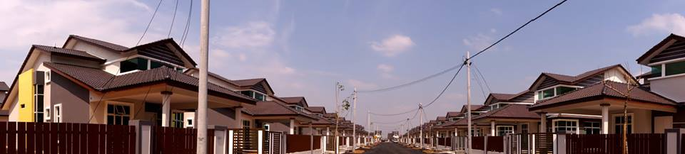 Taman Belimbing Setia before vacant possession